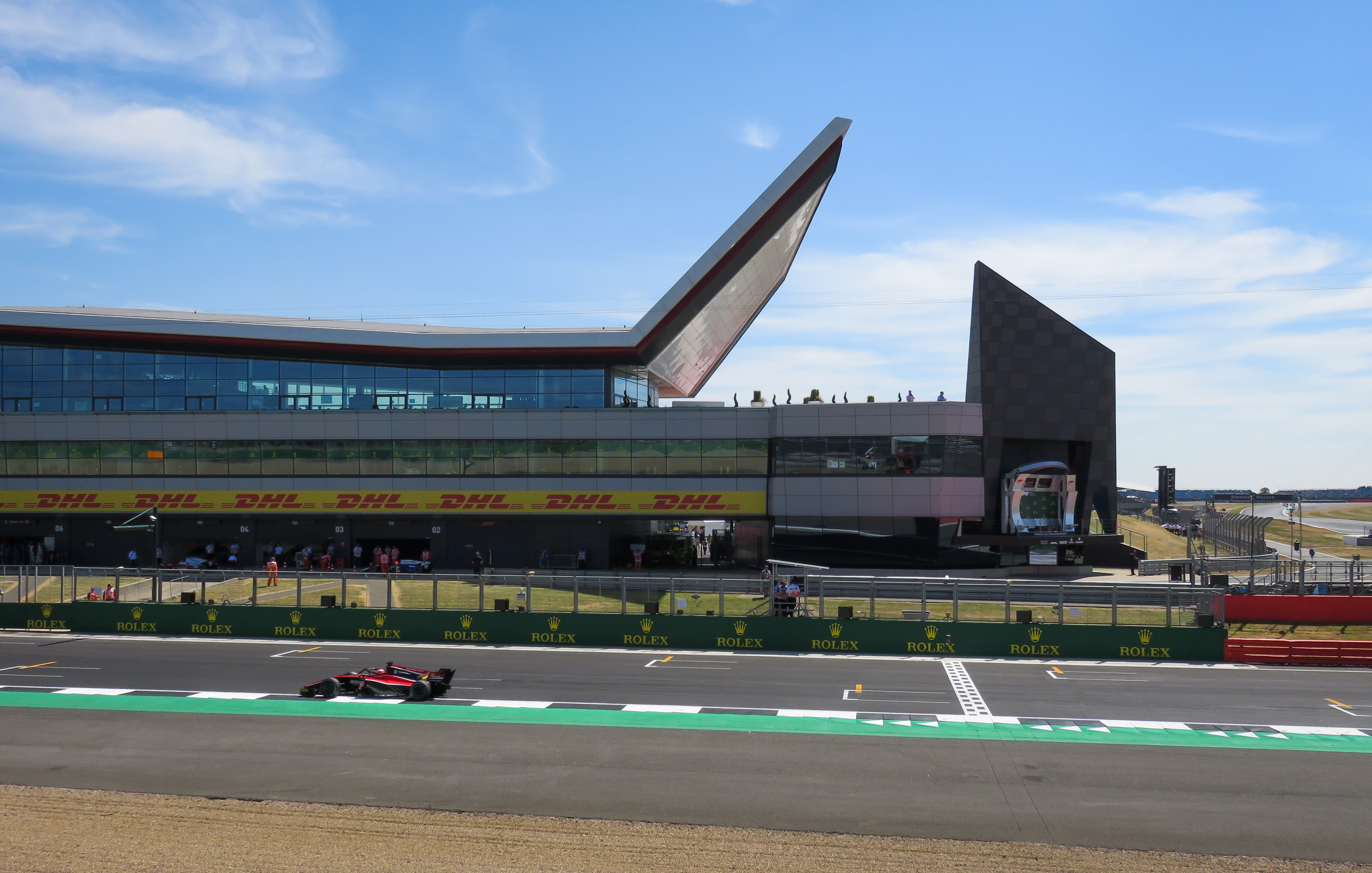 2018 FIA Formula 2 Championship, Silverstone Circuit.